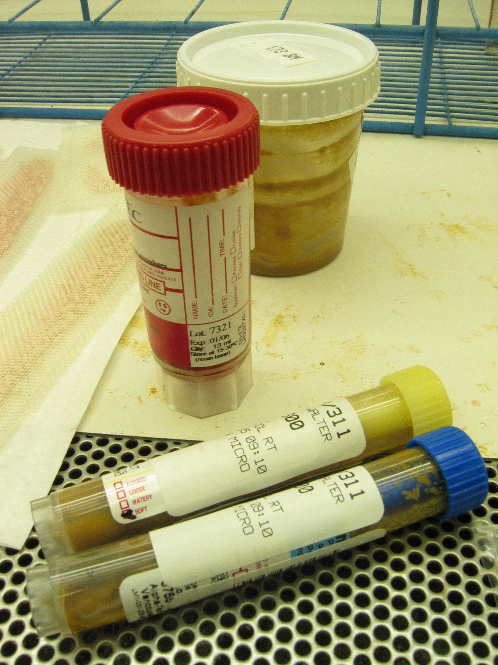 Transport vials filled with human feces for stool testing (parasites and cultures).